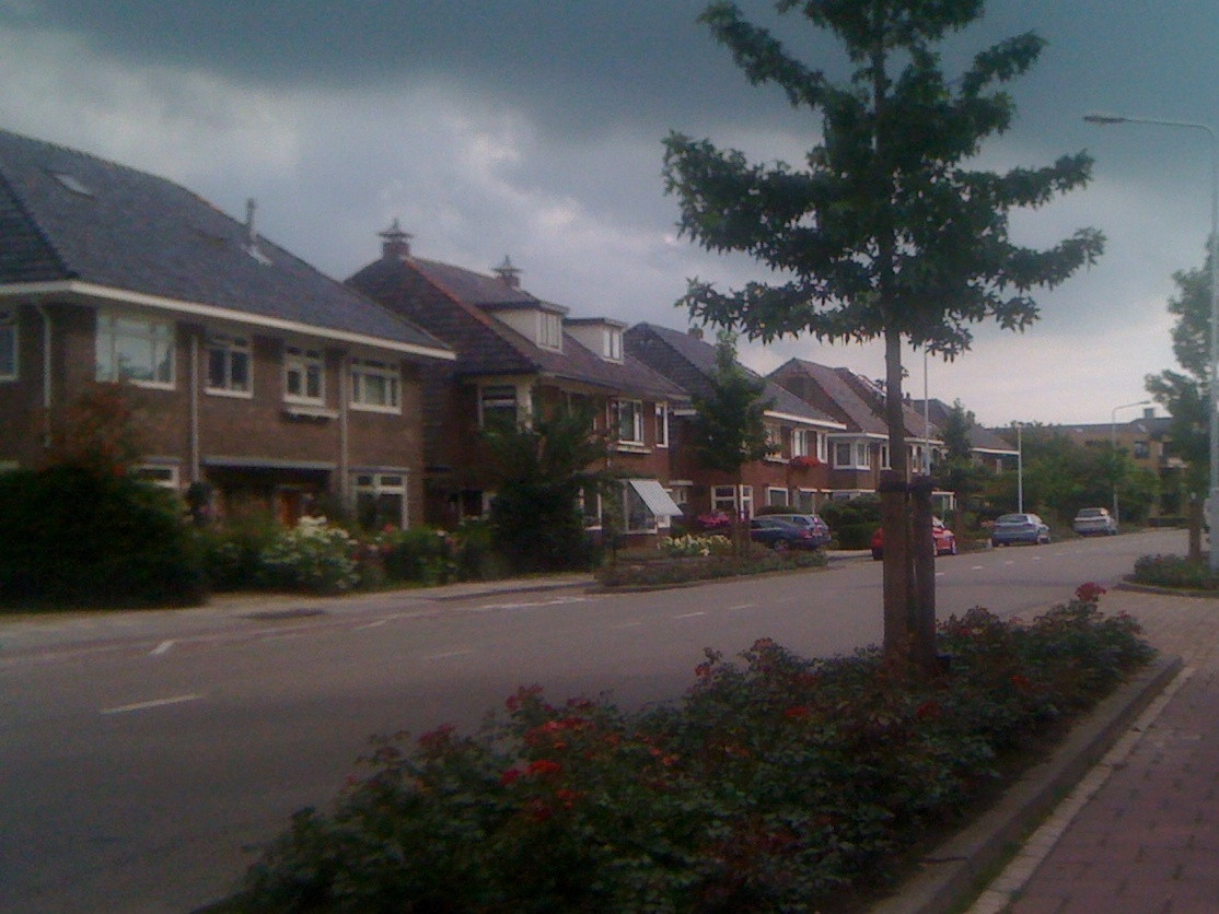 Leeuwarderweg, road and neighbourhood in Sneek